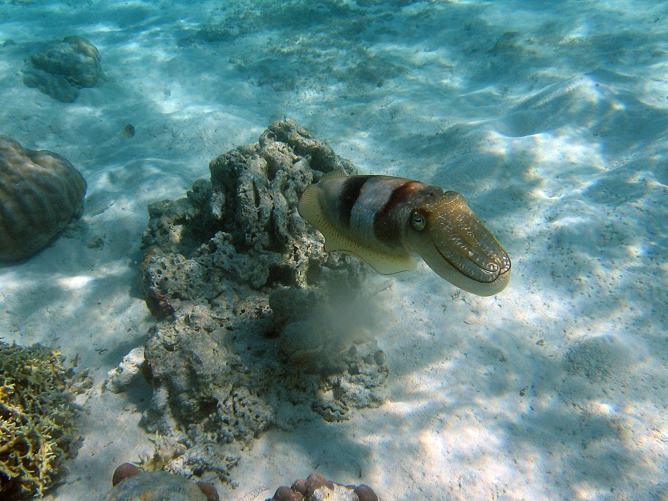 The camouflage of a cuttlefish. Taken in Komodo, Nusa Tenggara, Indonesia. The cuttlefish arrived to a place where the sea bottom was white sand, and the cuttlefish changed its colour immediately, to became white.